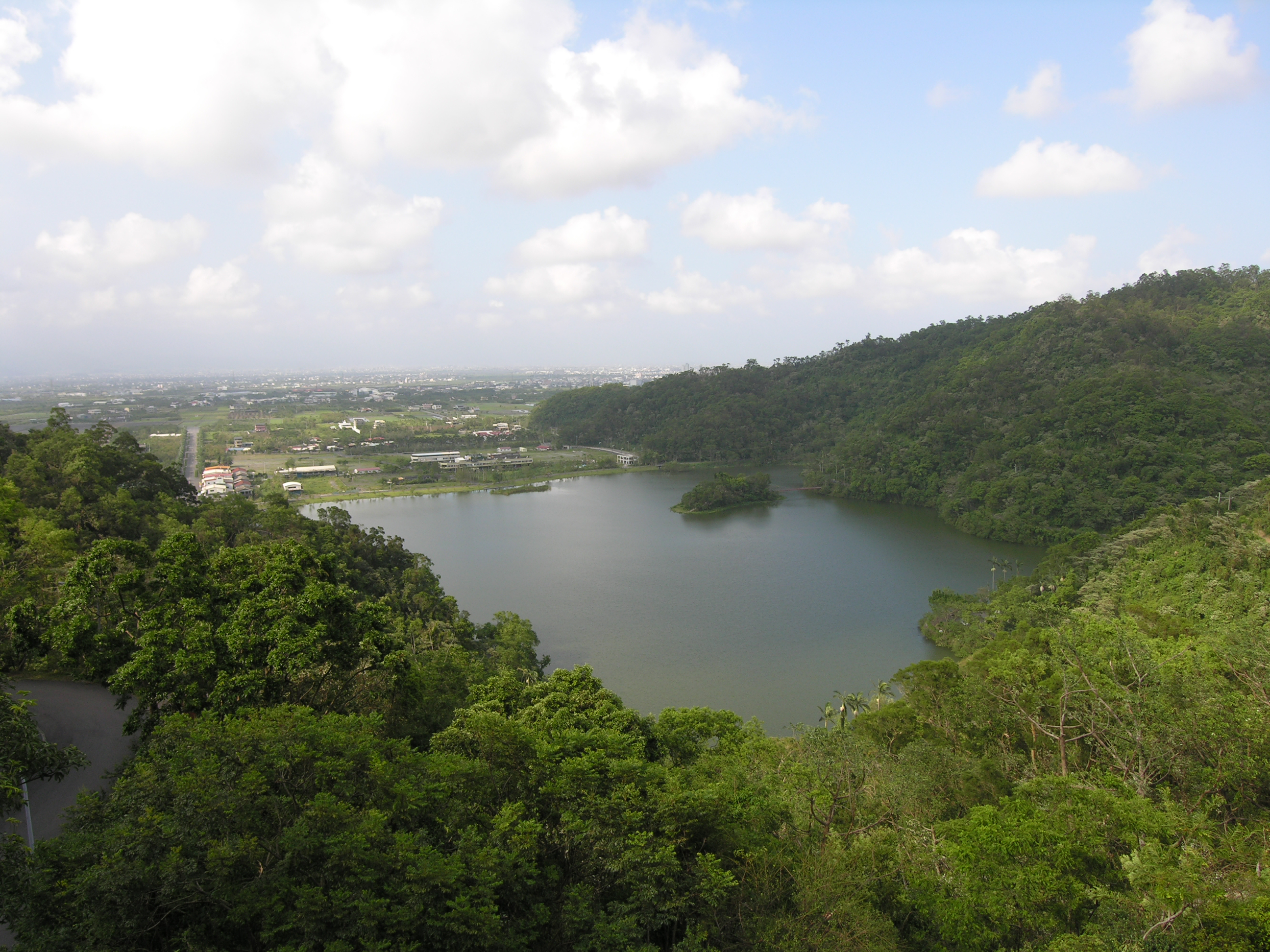 Looking down on Meihua Lake.中文（中国大陆）: 俯瞰梅花湖